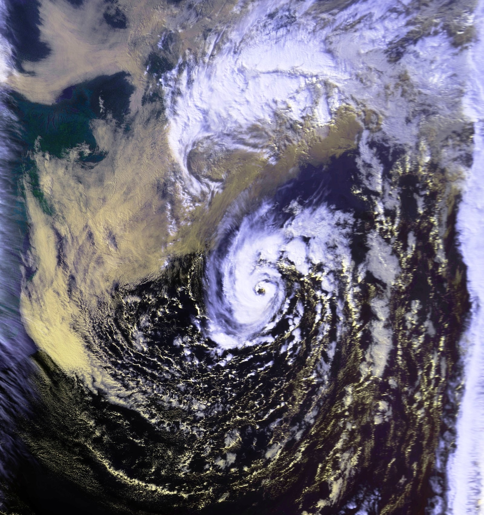 This image shows the unnamed hurricane of 1991 at peak intensity on November 1 at 1906 UTC. This image was produced from data from NOAA-11, provided by NOAA.